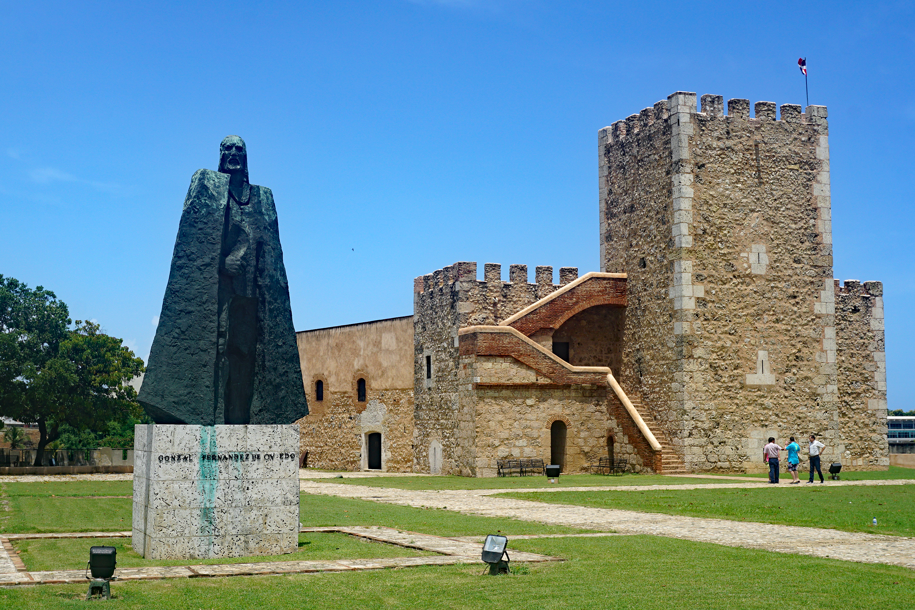 Statue of Gonzalo Fernández de Oviedo with Ozama Fortress in the background. Cuidad Colonial de Santo Domingo, Domican Republic.